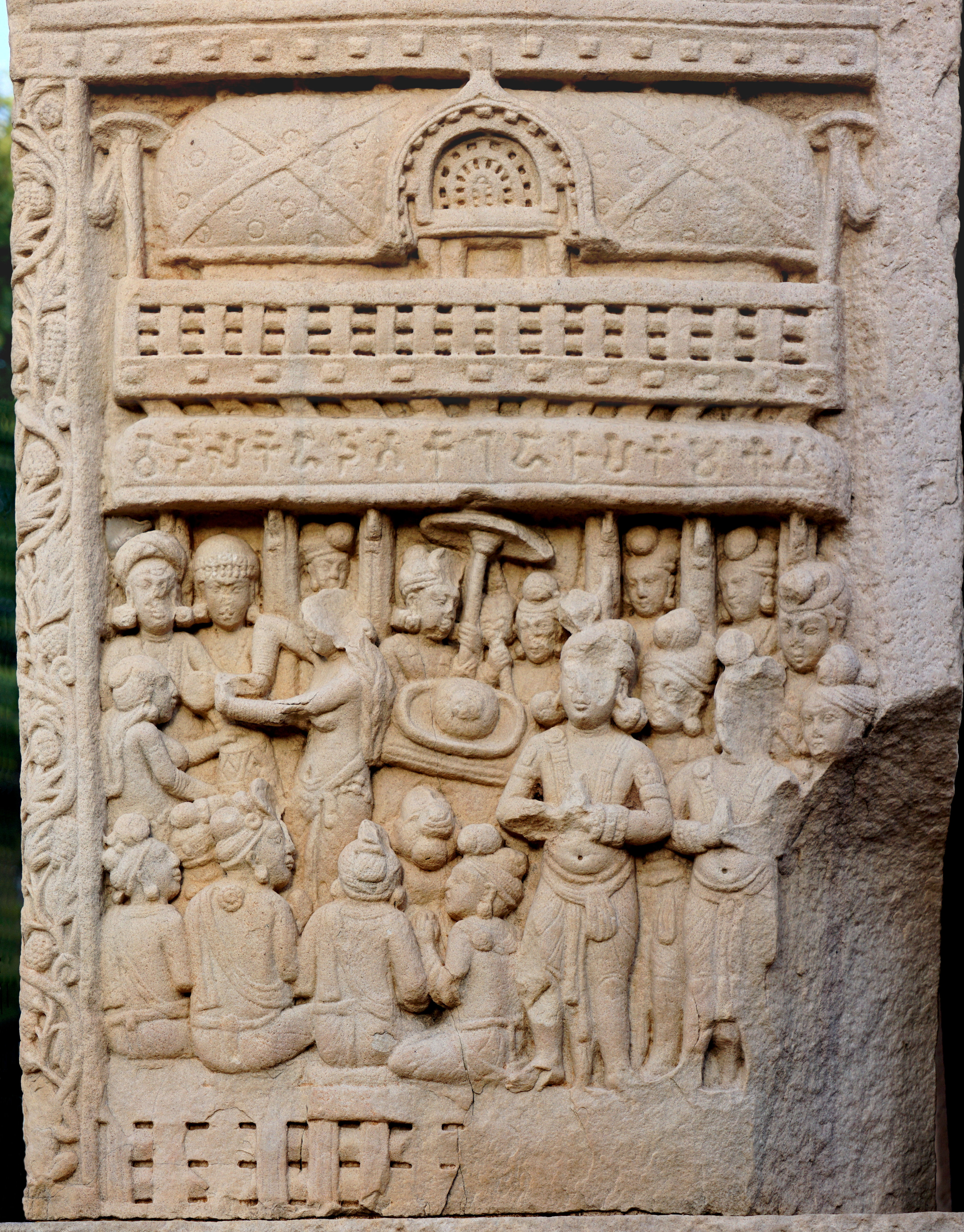 Worship of the Bodhisattva's hair in the Trayastrimsa Heaven. Sanchi Stupa 1 Southern Gateway, photograph by Anandajoti Bhikkhu. Marshall p.51